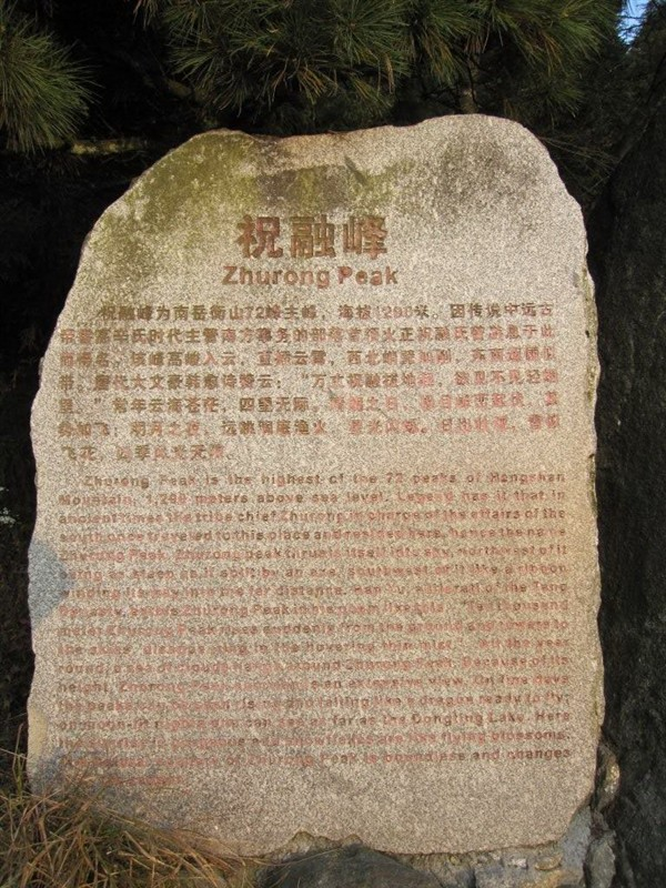 stone tablet on Zhu Rong Peak.